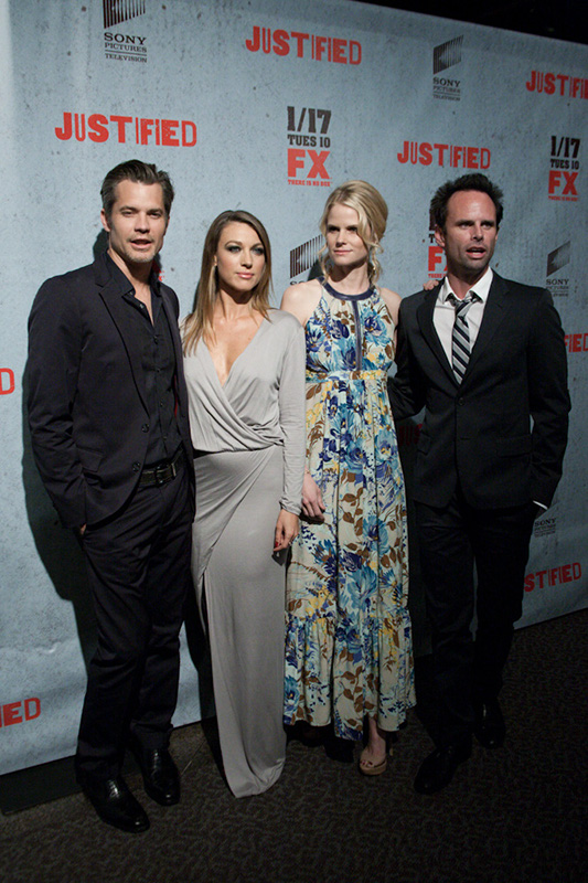 Justified cast: Timothy Olyphant, Natalie Zea, Joelle Carter & Walton Goggins